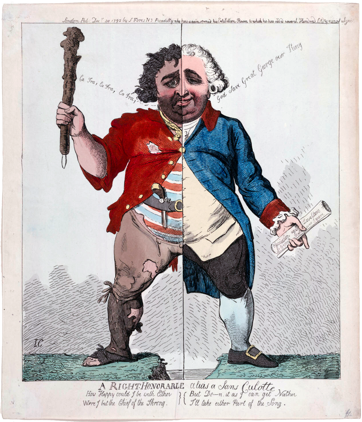 Print on laid paper : etching, hand-colored ; sheet 37.5 x 32.3 cm.